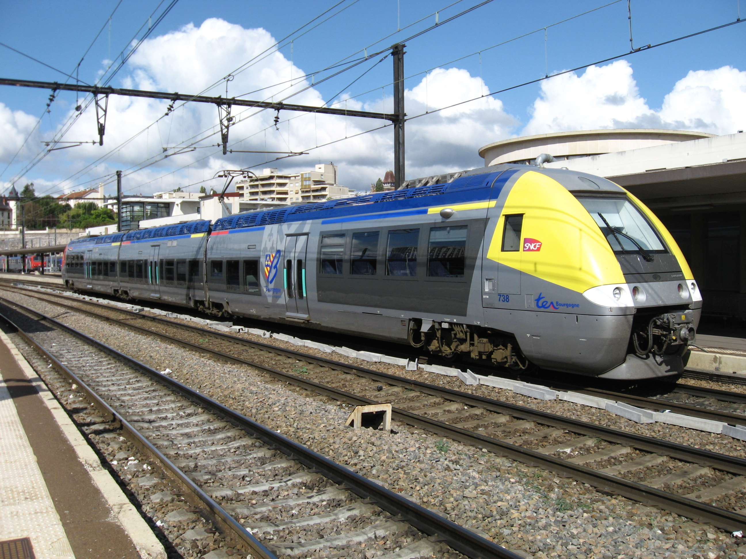 TER Bourgogne train in Dijon station